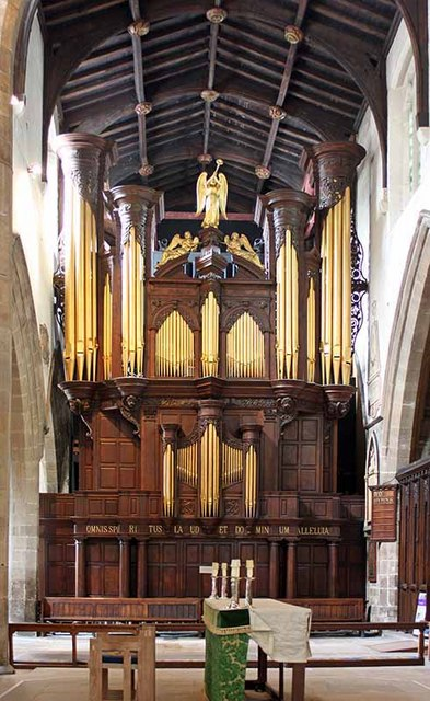 St Nicholas Cathedral, Newcastle - Organ